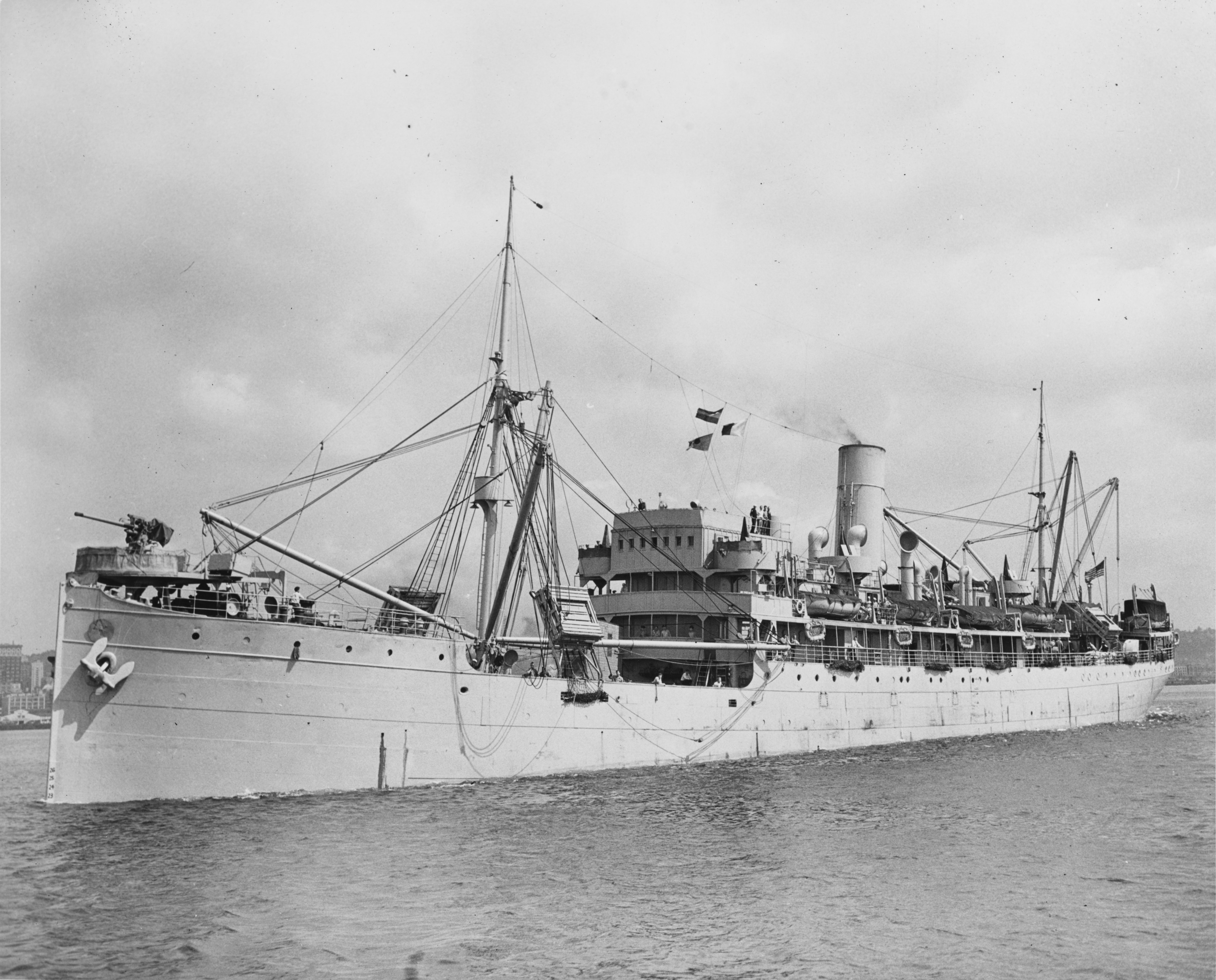 USAT Otsego, originally the 1901 HAPAG passenger-cargo ship Prinz Eitel Friedrich.